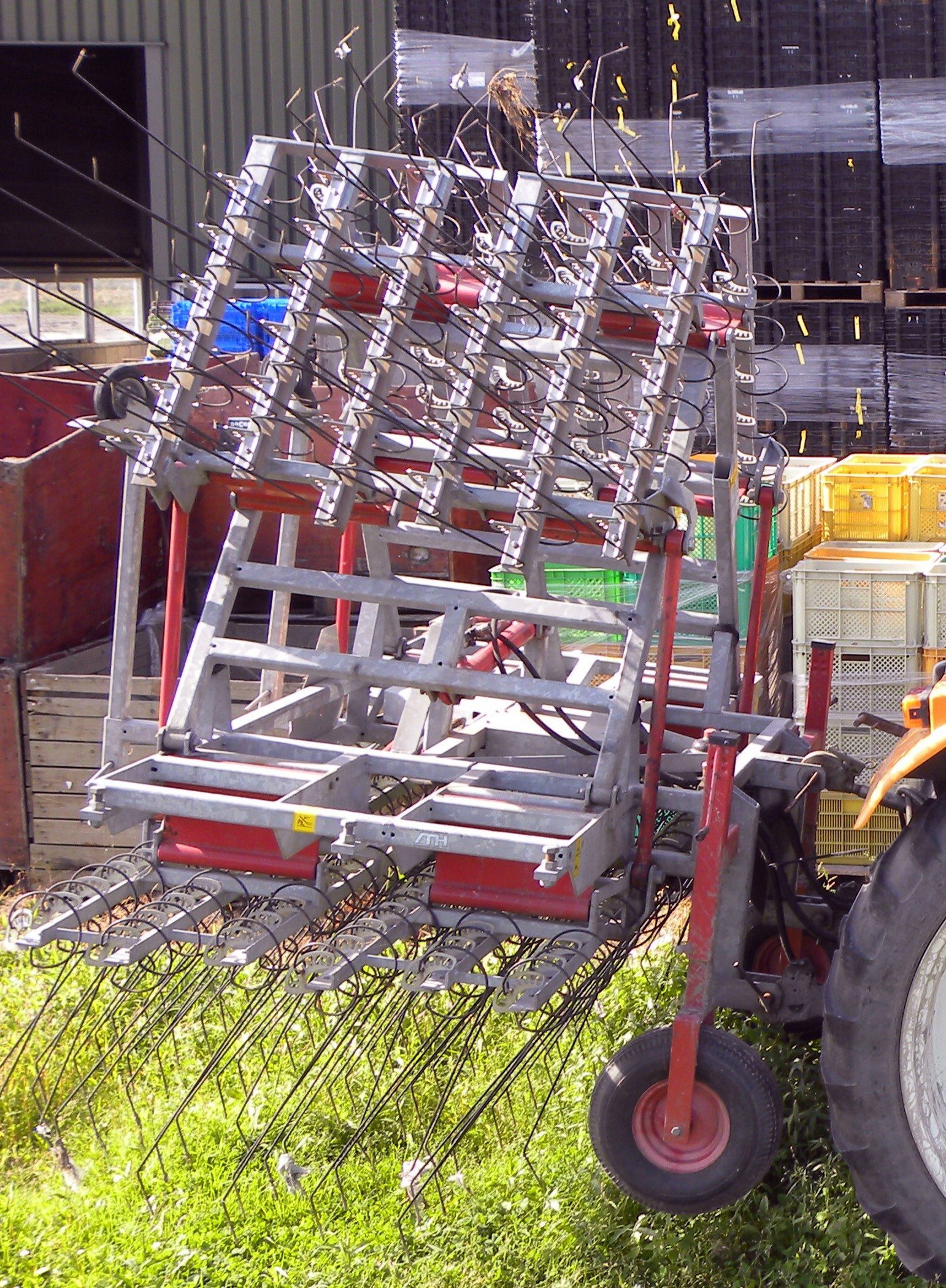 A tine weeder (also called weeder harrow or comb harrow) in transport position, mounted on the rear three-point linkage of a tractor